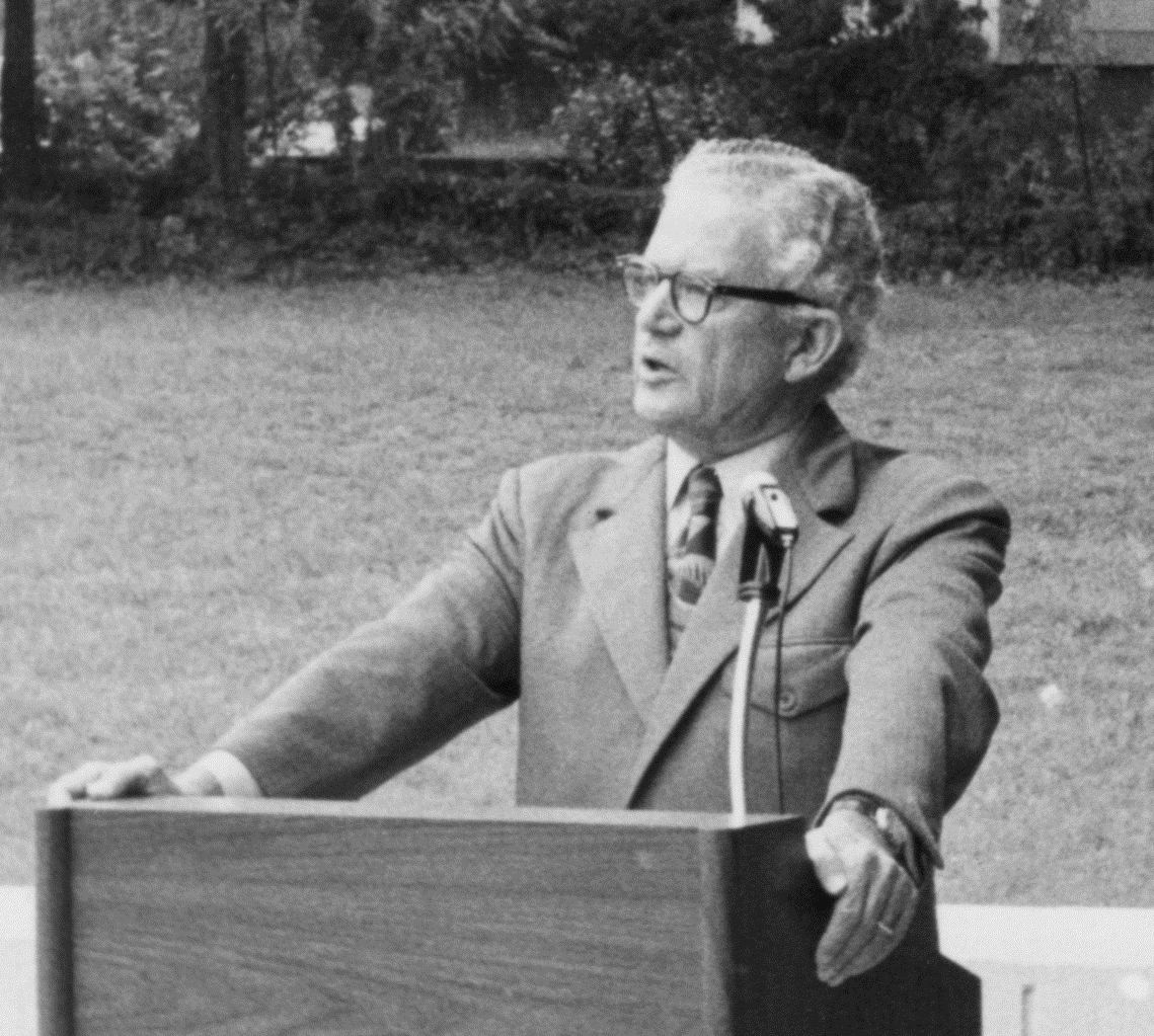 James E. Boyd (scientist), who held roles including director of the Georgia Tech Research Institute, president of Georgia State University and the Georgia Institute of Technology. This picture is most likely depicting the latter, but there is no evidence to firmly indicate that.